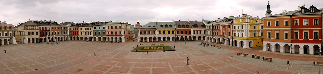 South frontage of Great Market in Zamosc